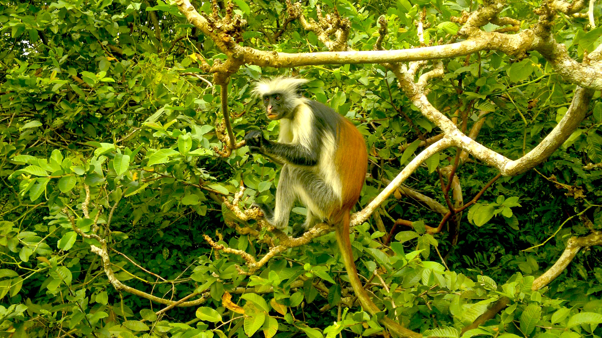 A wild Zanzibar red colobus in Jozani Village.